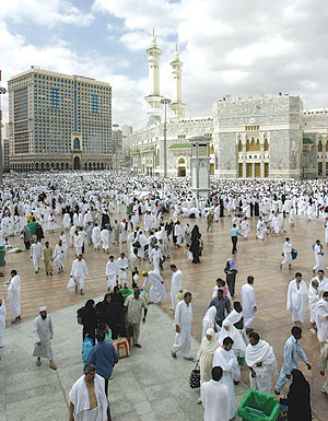 Photograph of Mecca, KSA.